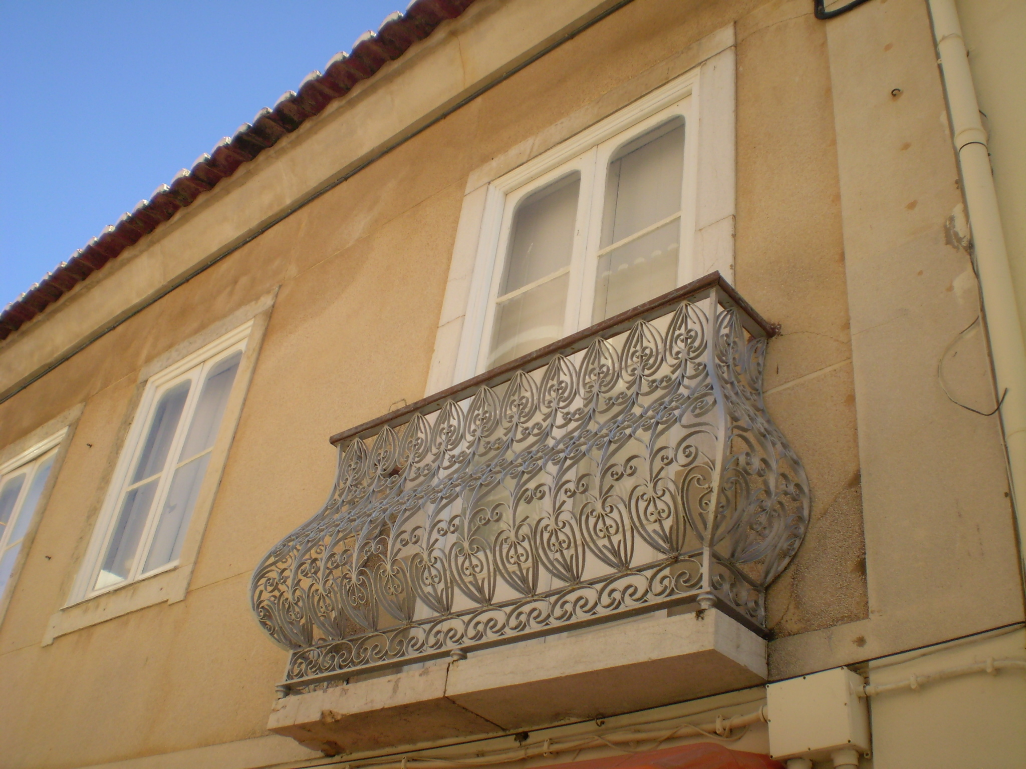 Balcony with cast iron railing, in the "Papo de Rola" (Dove's Crop) syle. Photograph taken in Rua Afonso de Almeida, Lagos, Portugal.